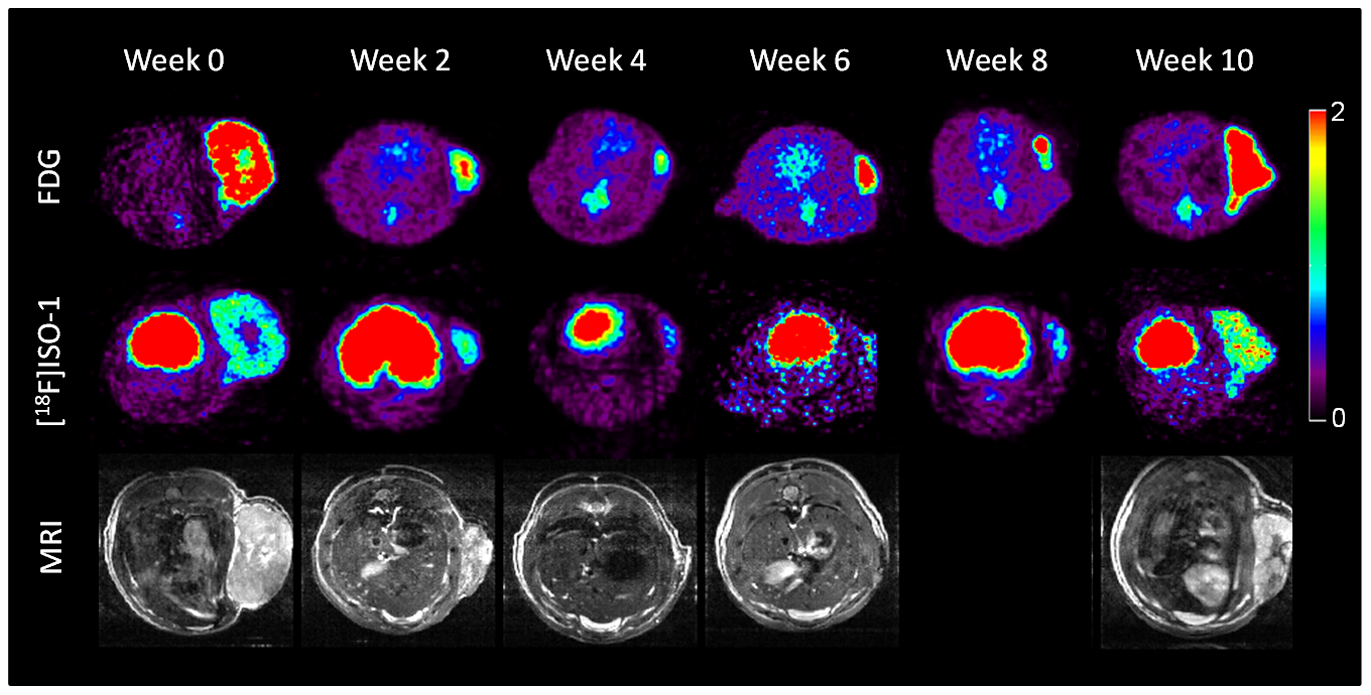 This is a figure from a open-access research paper that shows several different brain imaging scans using unique sigma-2 receptor ligands. The scans are related to tumor growth and cancer progression over a 10 week period. The figure also includes MRI scans for comparison with PET scans.